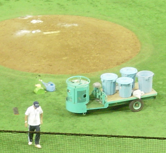 Turret Truck at Tokyo dome